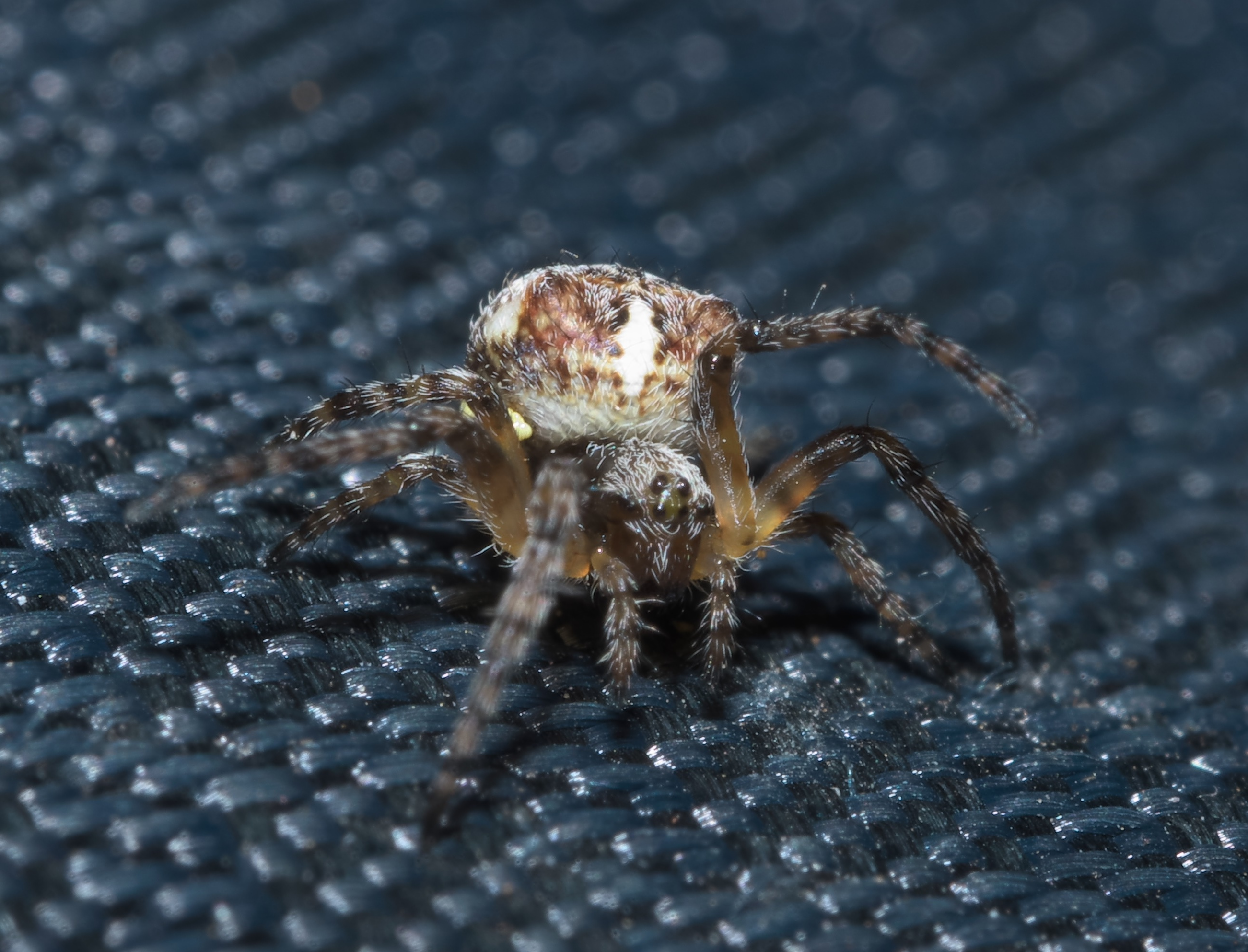 Giant Lichen Orb Weaver, Araneus bicentenarius, front view